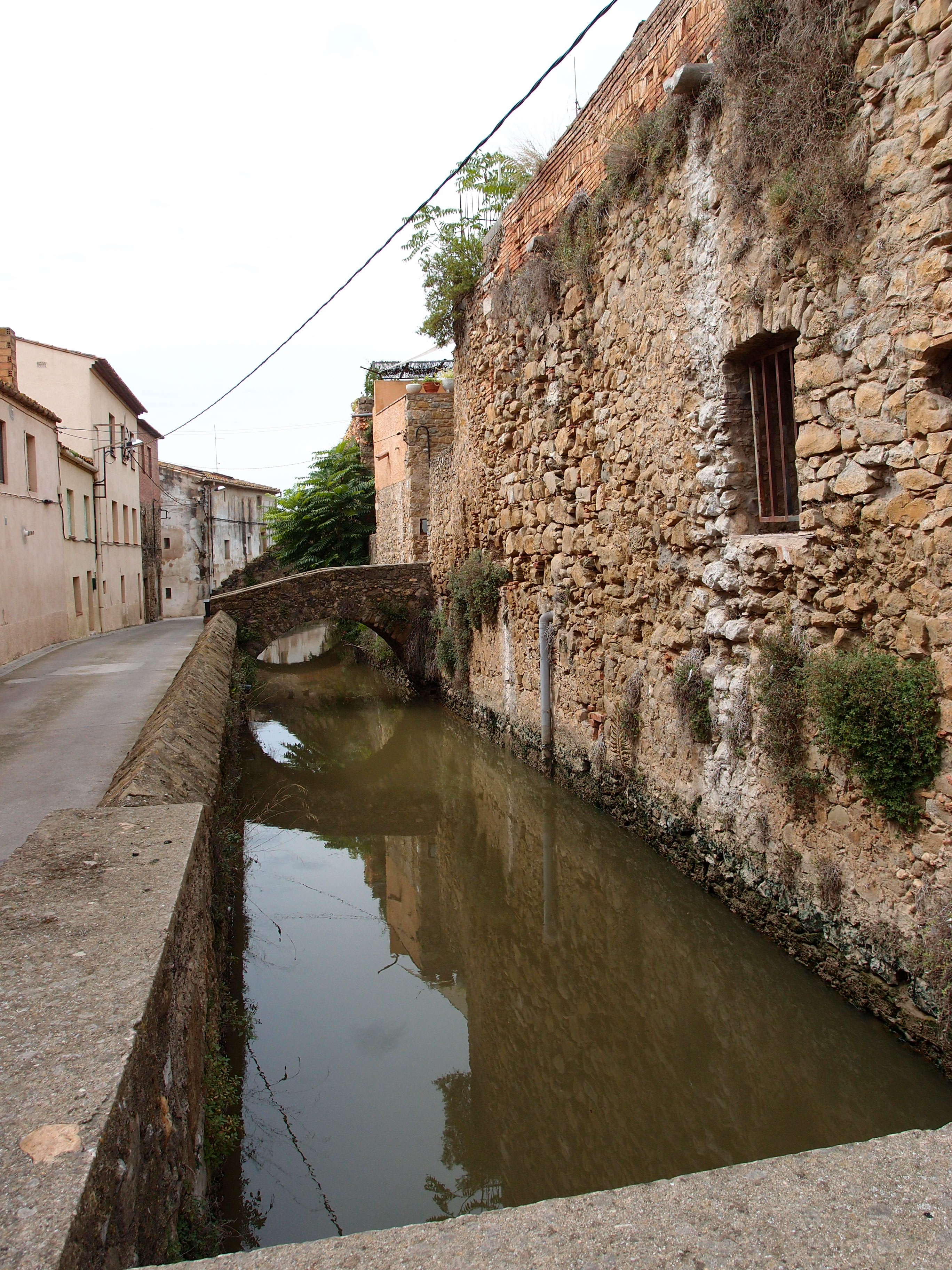 Verges - Katalonien/Spanien Datum: 24.09.2011 Urheber: M. Pfeiffer alias Gordito1869 Quelle: Privates Fotoarchiv des Urhebers